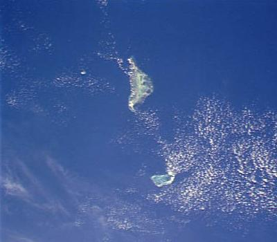 NASA astronaut image of Farquhar Group (Seychelles) in the Indian Ocean